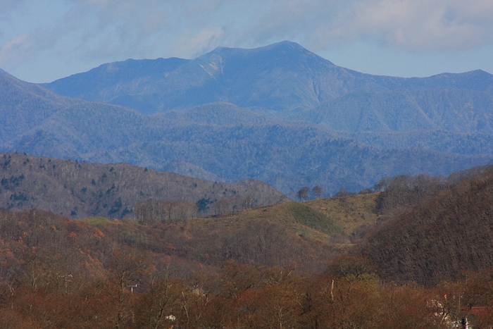 Mount Petegari seen from the Southwest.